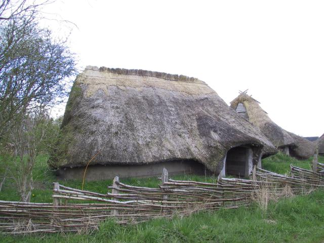 Reconstructed Danish iron age house; located in Jernalderlandsbyen (The Iron Age Village) in Odense (higher resolution version will be contributed later)